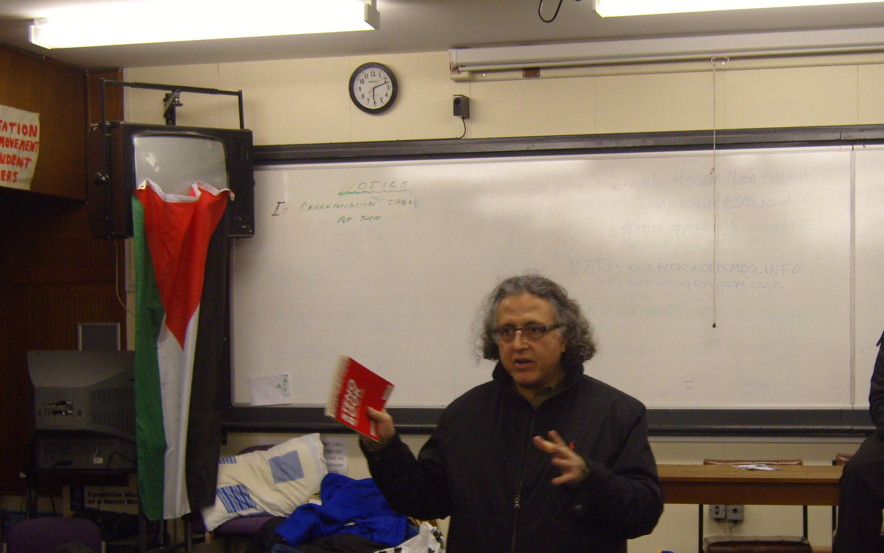 Dr As'ad AbuKhalil in a visit to Manchester University during the Israeli Apartheid Week there in 2009.